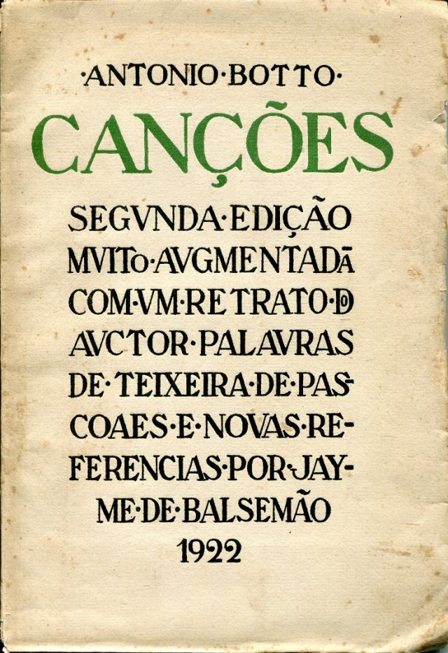 Cover of António Botto, Canções, 2nd edition